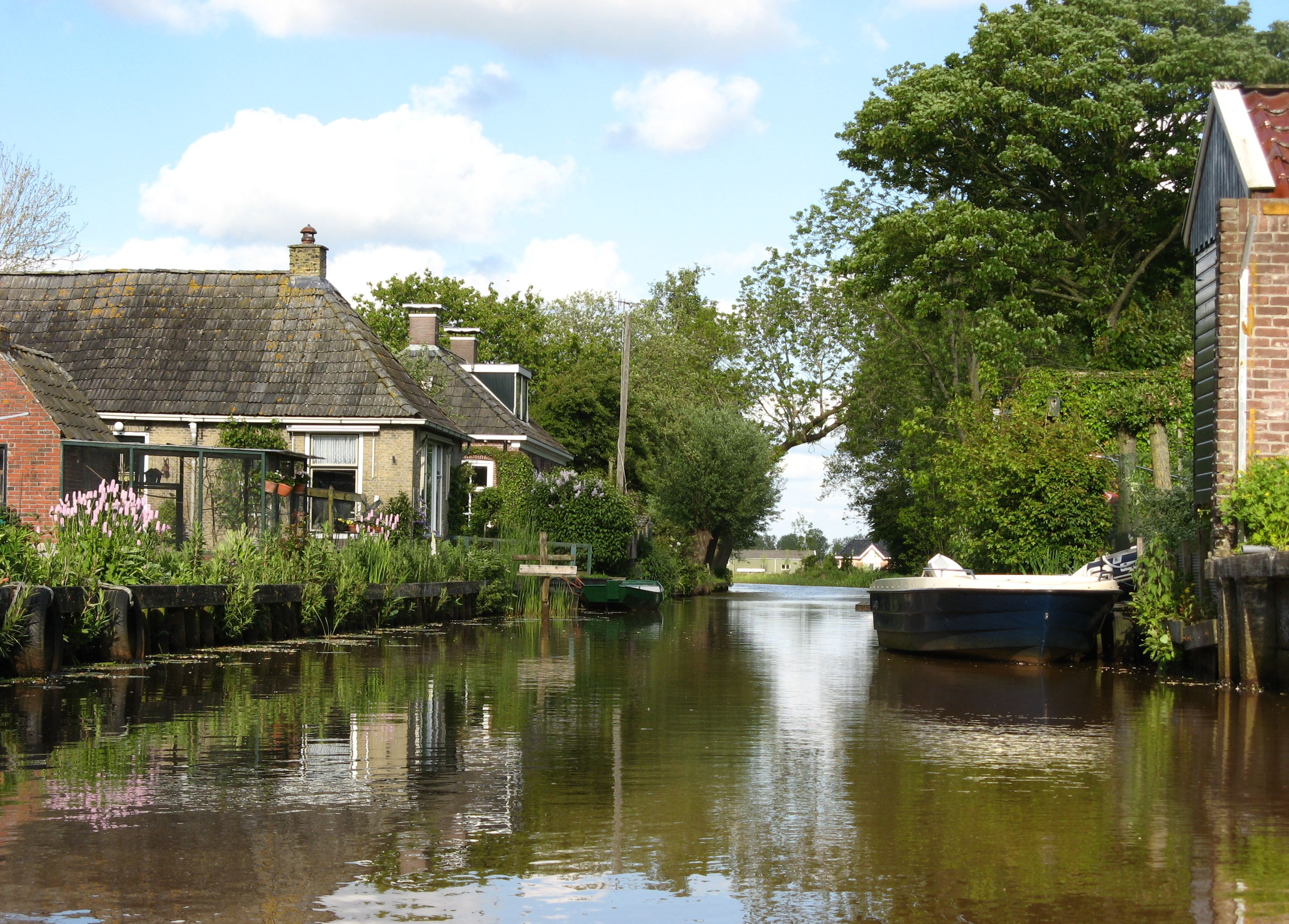 Canal in Rijperkerk